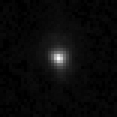 Located 10 billion miles away, but with a diameter that is a little more than half the width of the United States, Xena is only 1.5 picture elements across in Hubble's Advanced Camera for Surveys' view.